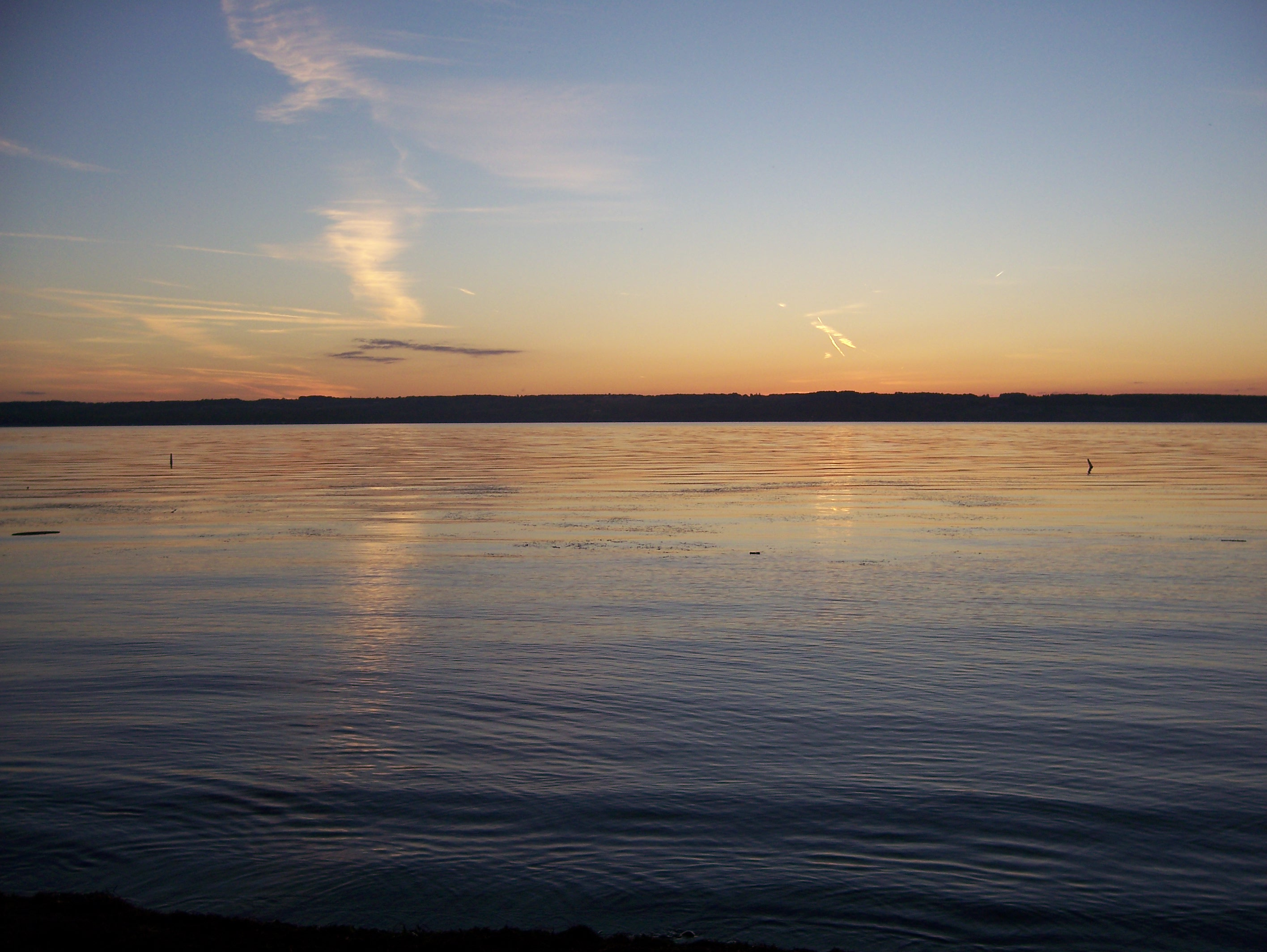 Image taken by Scieri12